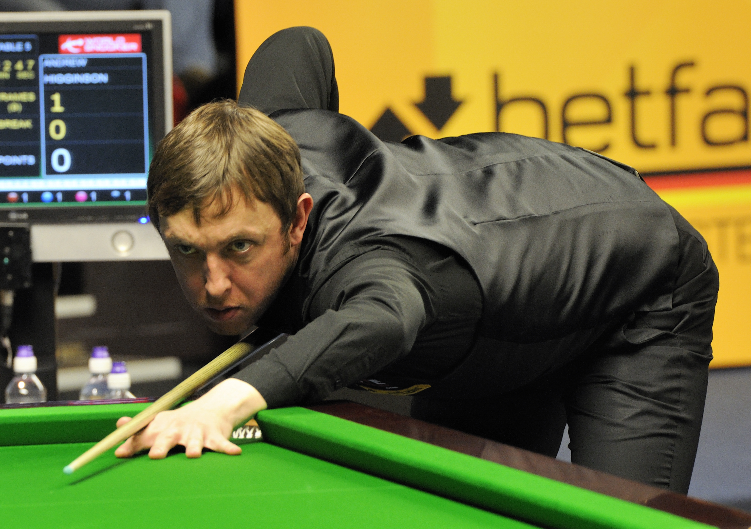 Picture taken in Berlin during the Snooker German Masters in 2013. Andrew Higginson.